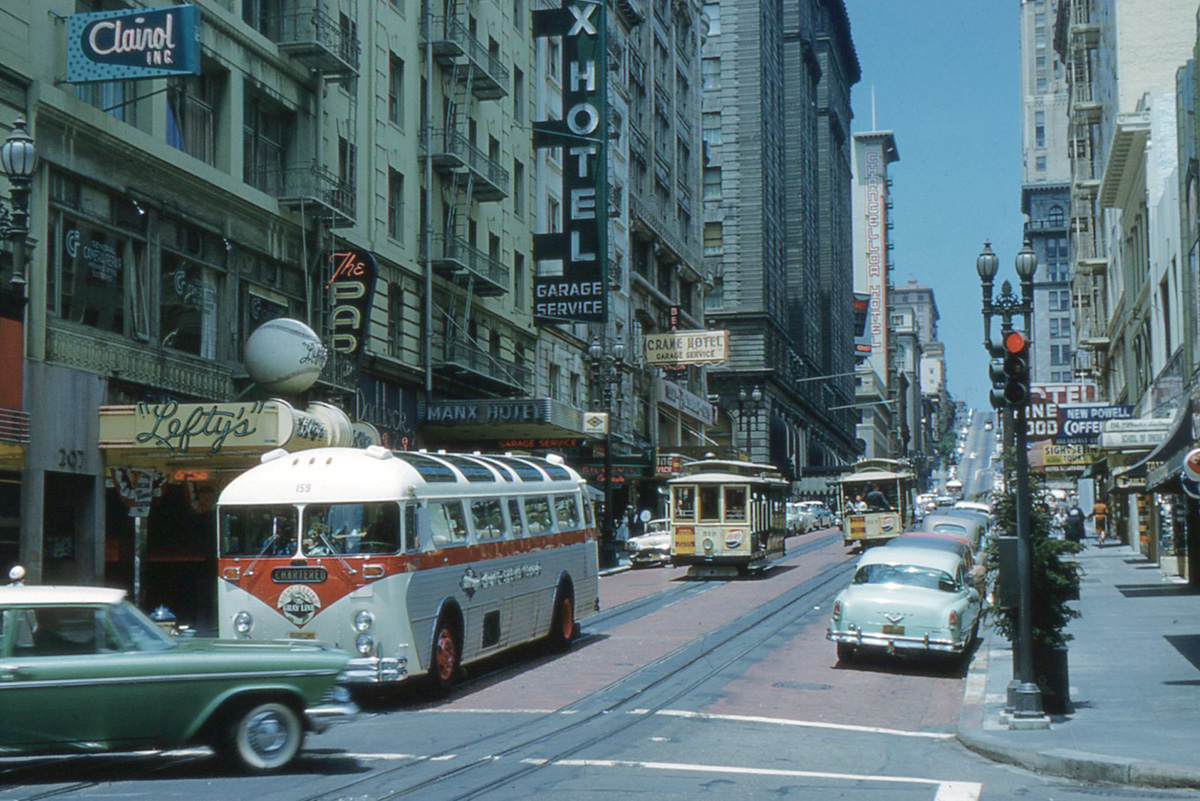 This may not have been the first photo that I took in San Francisco, but it is the earliest one that I kept. It shows Powell Street, near the cable car turntable at Powell and Market Streets. Thre are two cable cars in the photo, and a Gray Line sightseeing bus is in the foreground. The cross street is O'Farrell Street. The next two are Geary Street and Post Street. Lefty's is Lefty O'Doul's Restaurant, established by a baseball player and manager who was born in San Francisco and was popular there. (Note the baseball over the awning.) The restaurant still exists, but has moved around the corner on Geary Street. The Manx Hotel and Crane Hotel no longer exist. The Manx hotel was there in 1915, maybe earlier. The St. Francis Hotel is in the block after Geary Street. The Chancellor Hotel is still on the other side of Post Street. There is a continuous cable under the street, driven at a central power station. You can see the gap where the operator grabs the cable with a "grip," to move the car, and releases it when the car stops